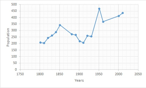 Total Population of Beighton Civil Parish, Norfolk, as reported by the Census of Population from 1801 to 2011